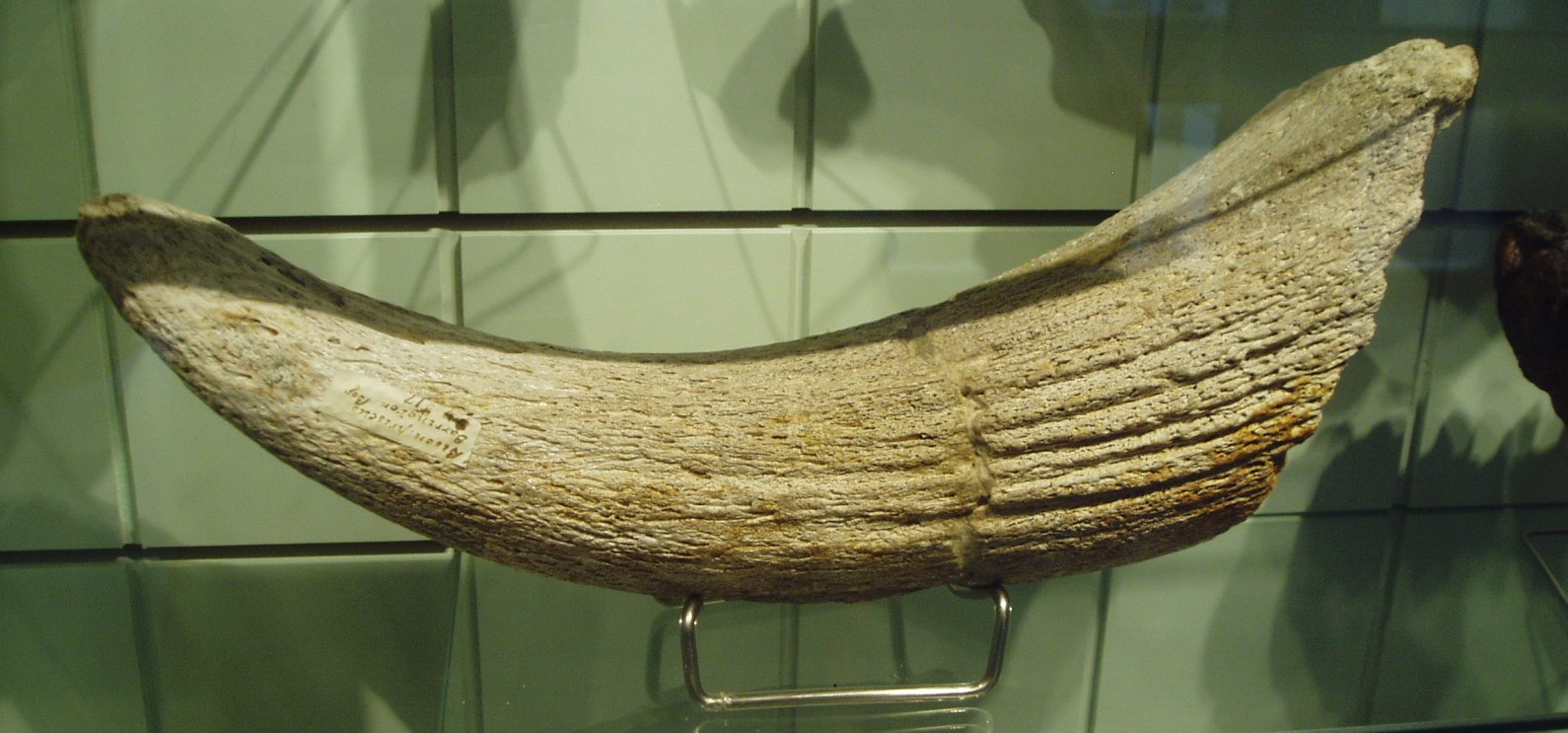 Horn of Bison priscus at Natural History Museum, London